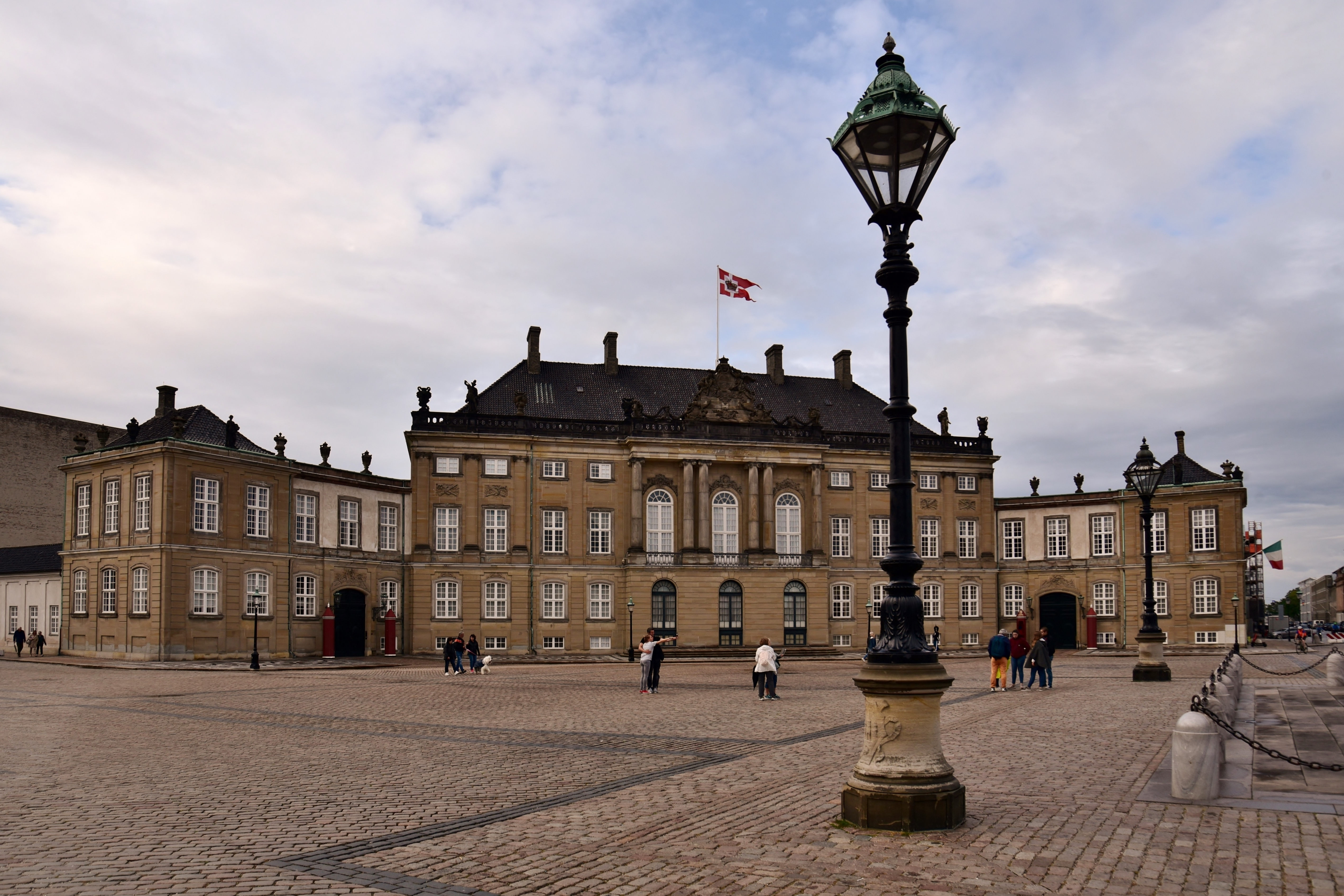 View of Christian VIII's Palæ, part of the Amalienborg Palace